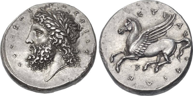 SICILY, Syracuse. Timoleon. 344-337 BC. AR Stater (21mm, 8.62 g, 12h). IΕΥΣ ΕΛΕΥΘΕΡΙΟΣ, Laureate head of Zeus to left / ΣΥΡΑΚΟΣΙΩΝ, Pegasos flying to left; below, retrograde Σ.